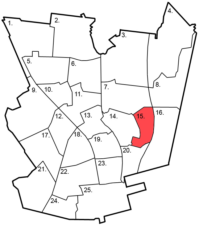 A map of neighbourhoods in the city of Järvenpää showing the location of Satumetsä in red. The names of the other individual neighbourhoods are listed below. Finnish: Kartta Järvenpään kaupunginosista, Satumetsän kaupunginosa punaisella. Kaikkien kaupunginosien nimet ovat alla olevassa listassa. 1. Wärtsilä 2. Nummenkylä 3. Pietilä 4. Haarajoki 5. Jamppa 6. Peltola 7. Isokytö 8. Mylly 9. Saunakallio 10. Sorto 11. Pajala 12. Loutti 13. Pöytäalho 14. Terhola 15. Satumetsä 16. Mikonkorpi 17. Kaakkola 18. Keskus 19. Kinnari 20. Satukallio 21. Vanhakylä 22. Lepola 23. Kyrölä 24. Terioja 25. Ristinummi